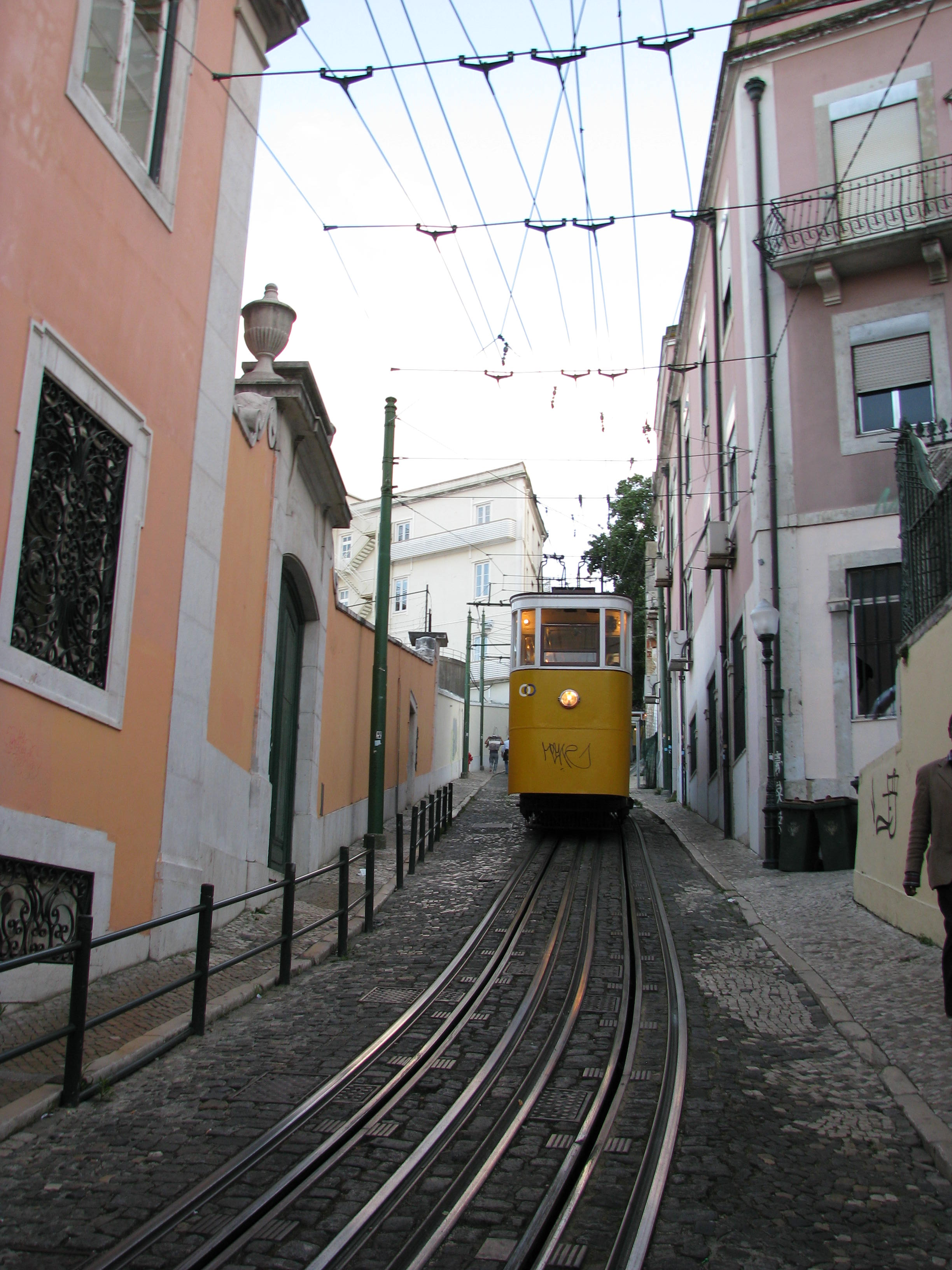 Glória Funicular, Lisbon, Portugal